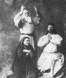 Amalie Materna, Emil Scaria, and Hermann Winkelmann in the 1882 premiere production of Parsifal.